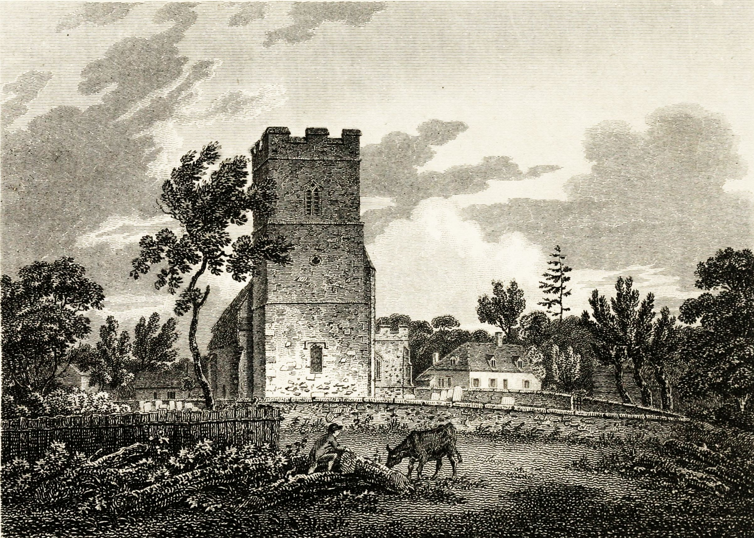 Honington Church and the Cottage in which Robt. Bloomfield was born Views in Suffolk, Norfolk, and Northamptonshire: illustrative of the works of Robert Bloomfield: accompanied with descriptions: to which is annexed a memoir of the poet's life